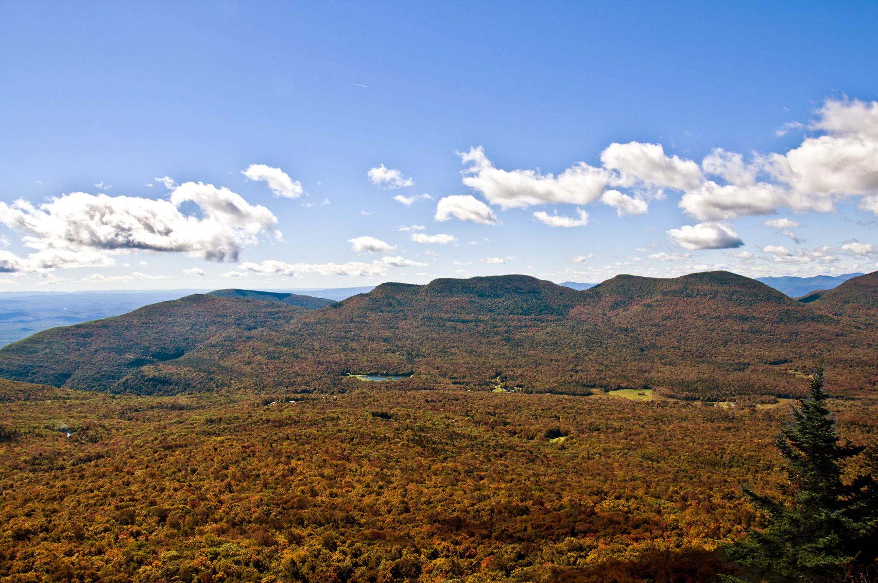 Photo of the Extreme Eastern section of the Devil's Path Range. Taken from Kaaterskill (High Peak) in October 2012